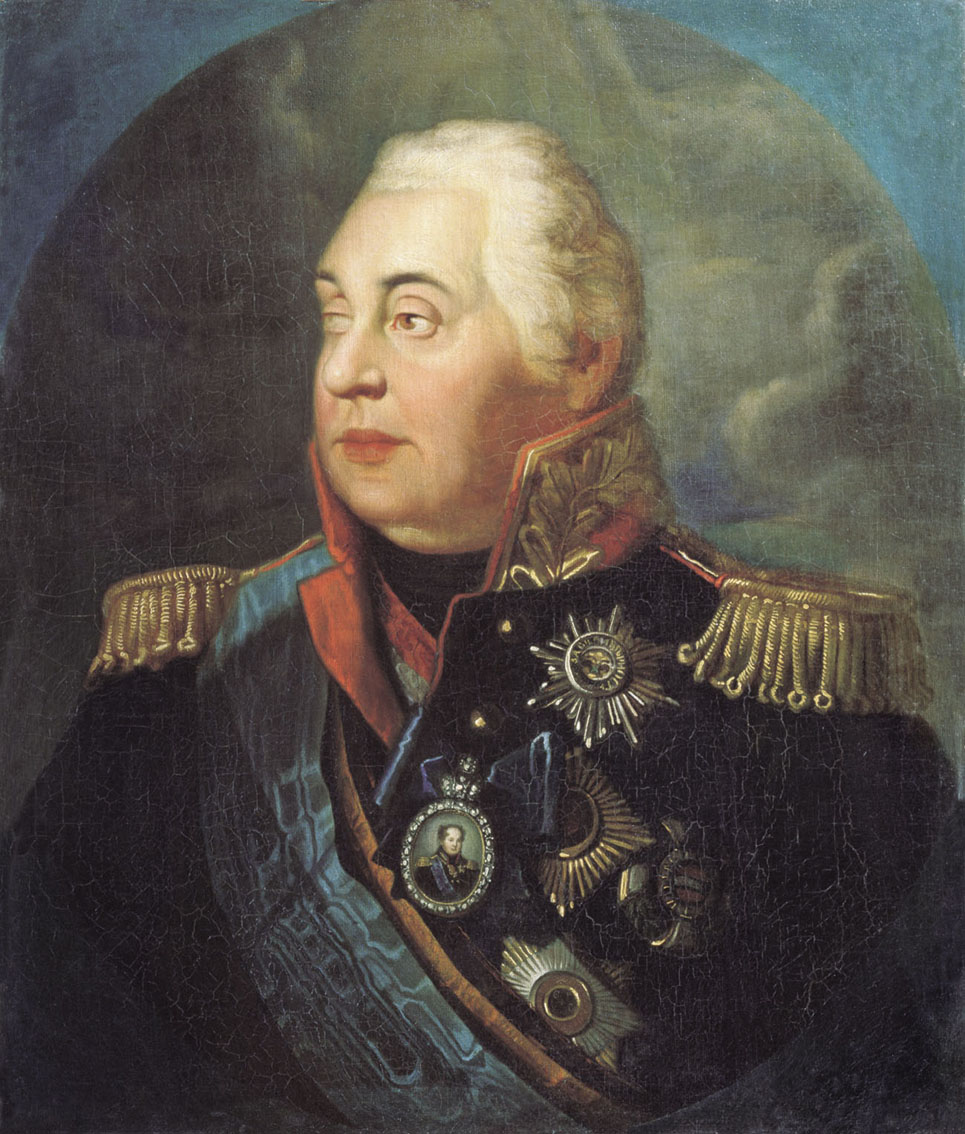 Portrait of russian field-marshal M.I. Kutuzov